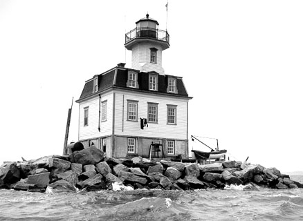 USCG Photo of Orient Long Beach Bar Lighthouse